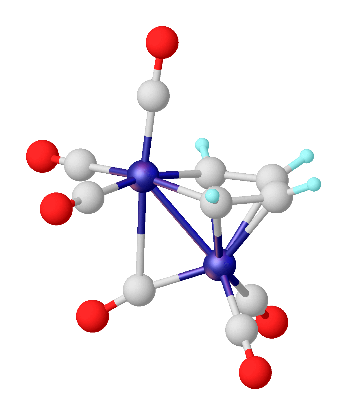 ferrole crystal structure from doi 10.1016/S0022-328X(00)82143-9